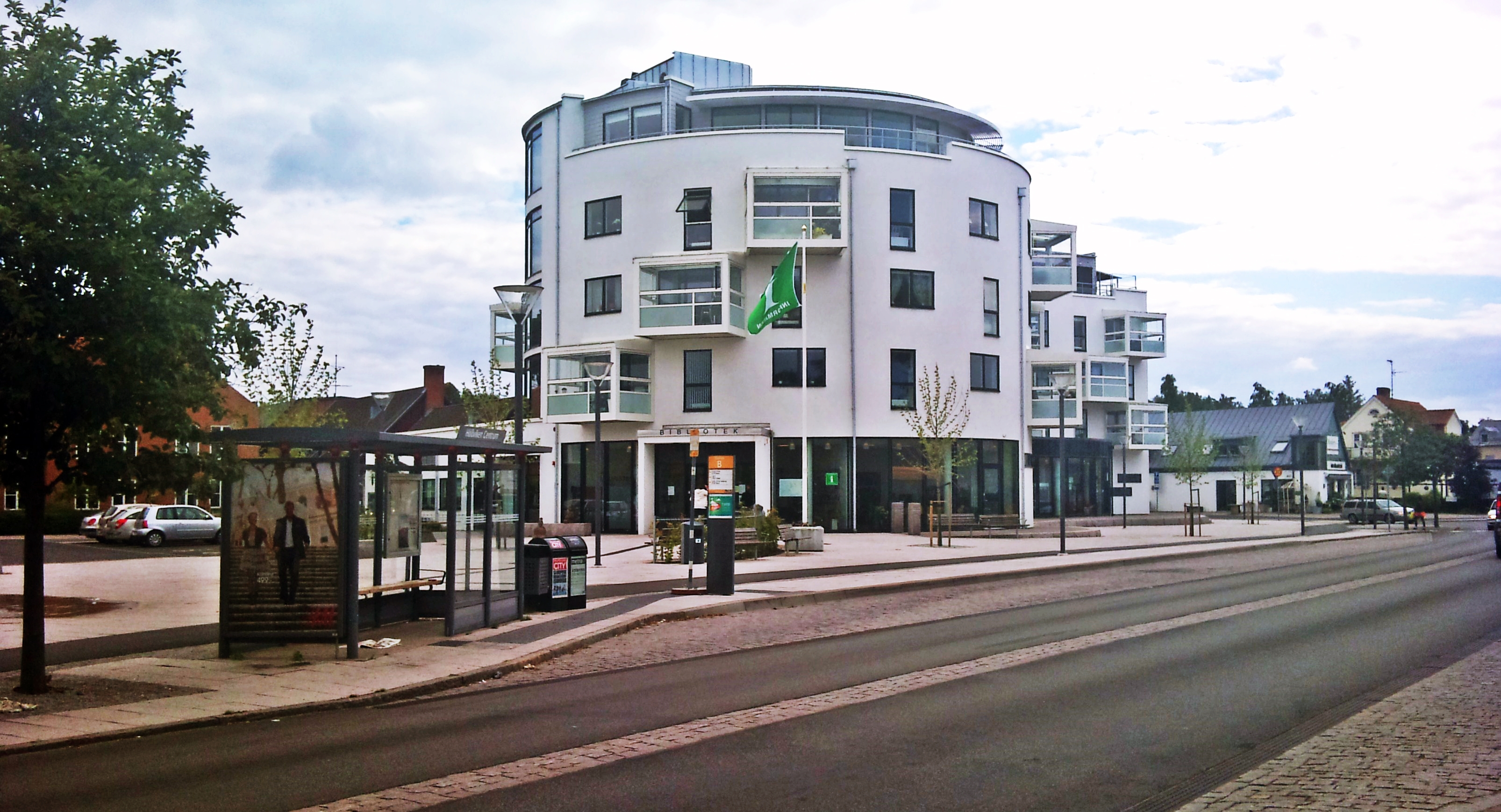 Höllviken